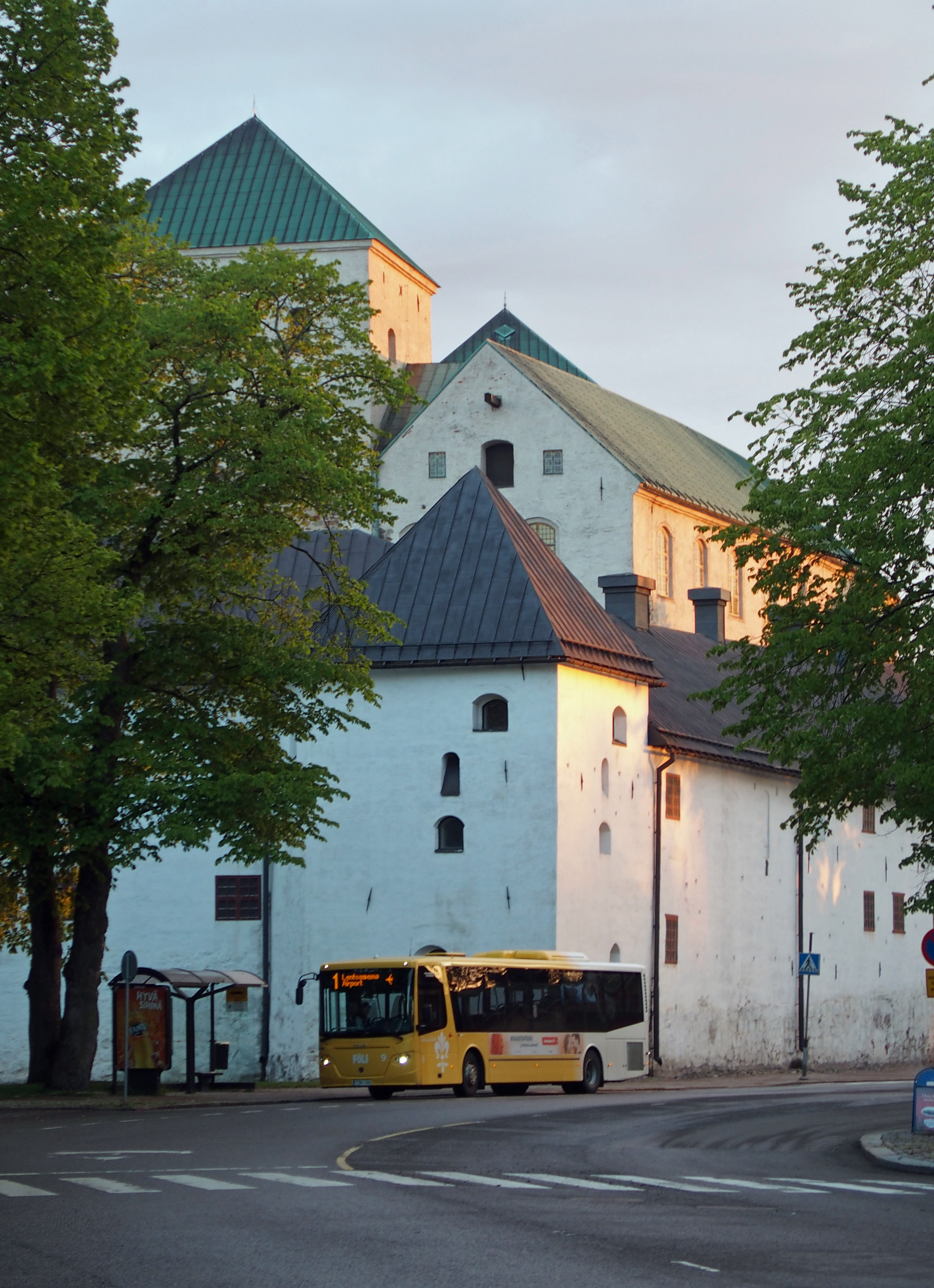 Turku city transport system bus on Linnankatu, June 2017